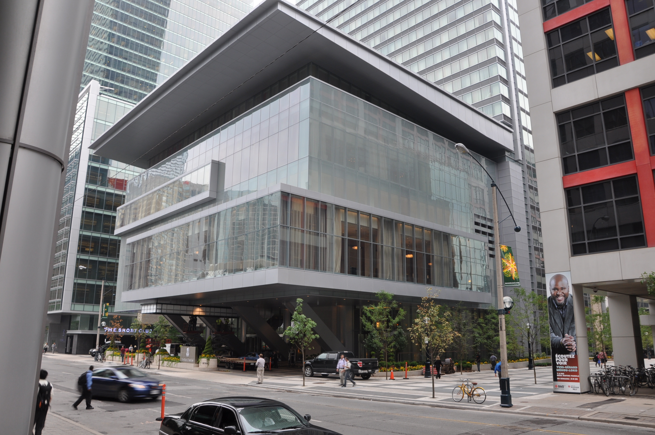 A view of the Ritz Carlton Toronto from Wellington Street.